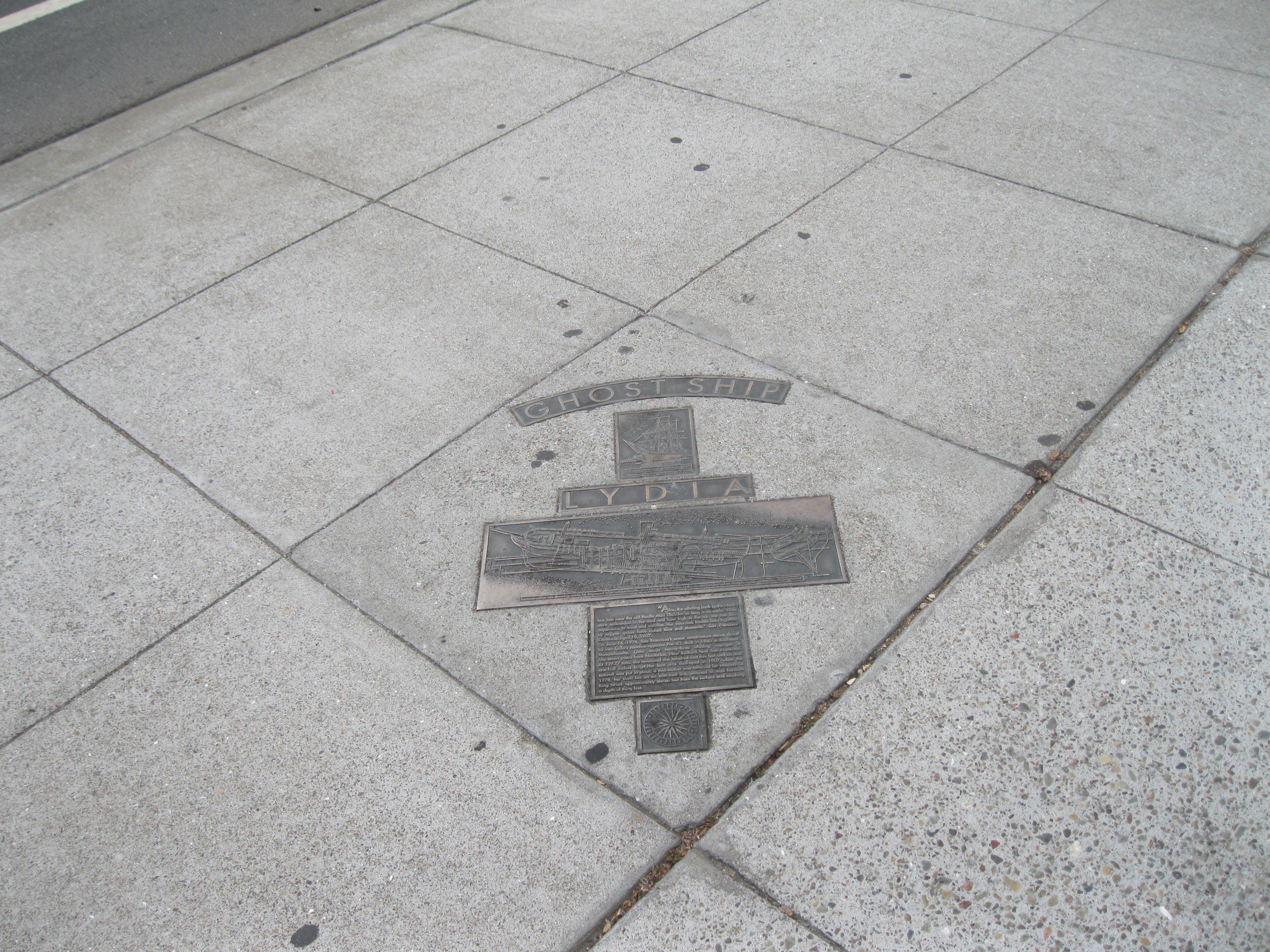 Plaque marking the site of The Lydia, a whaling ship buried beneath King Street in San Francisco.